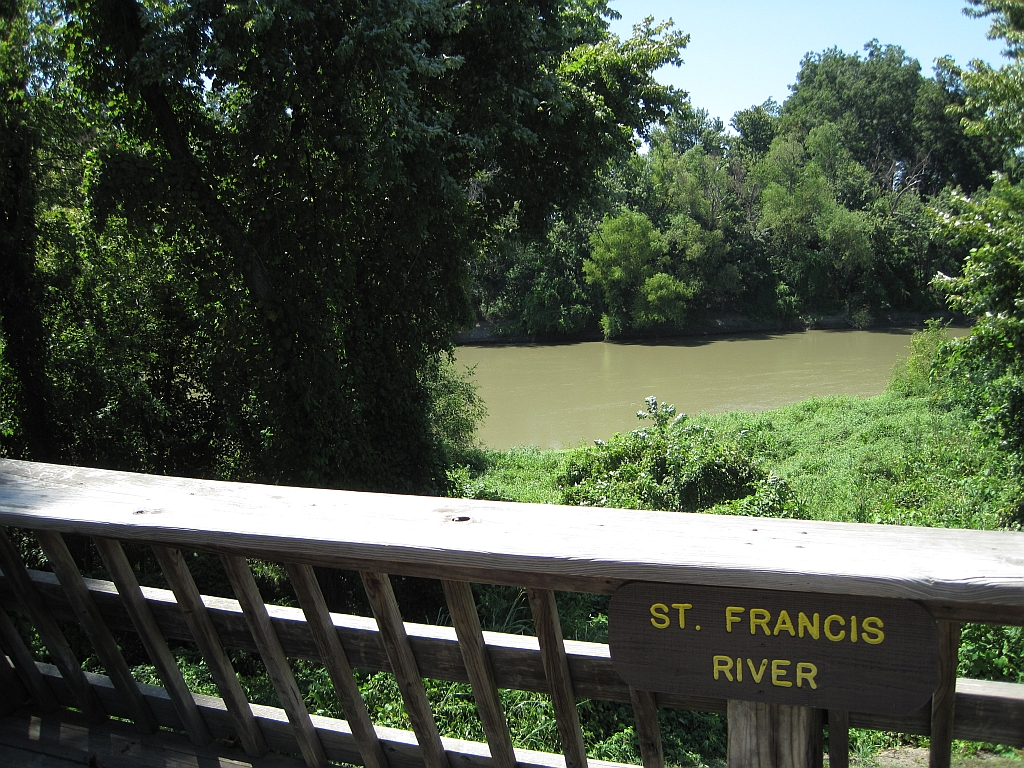 Parkin Archeological State Park in Parkin, Arkansas. St. Francis River